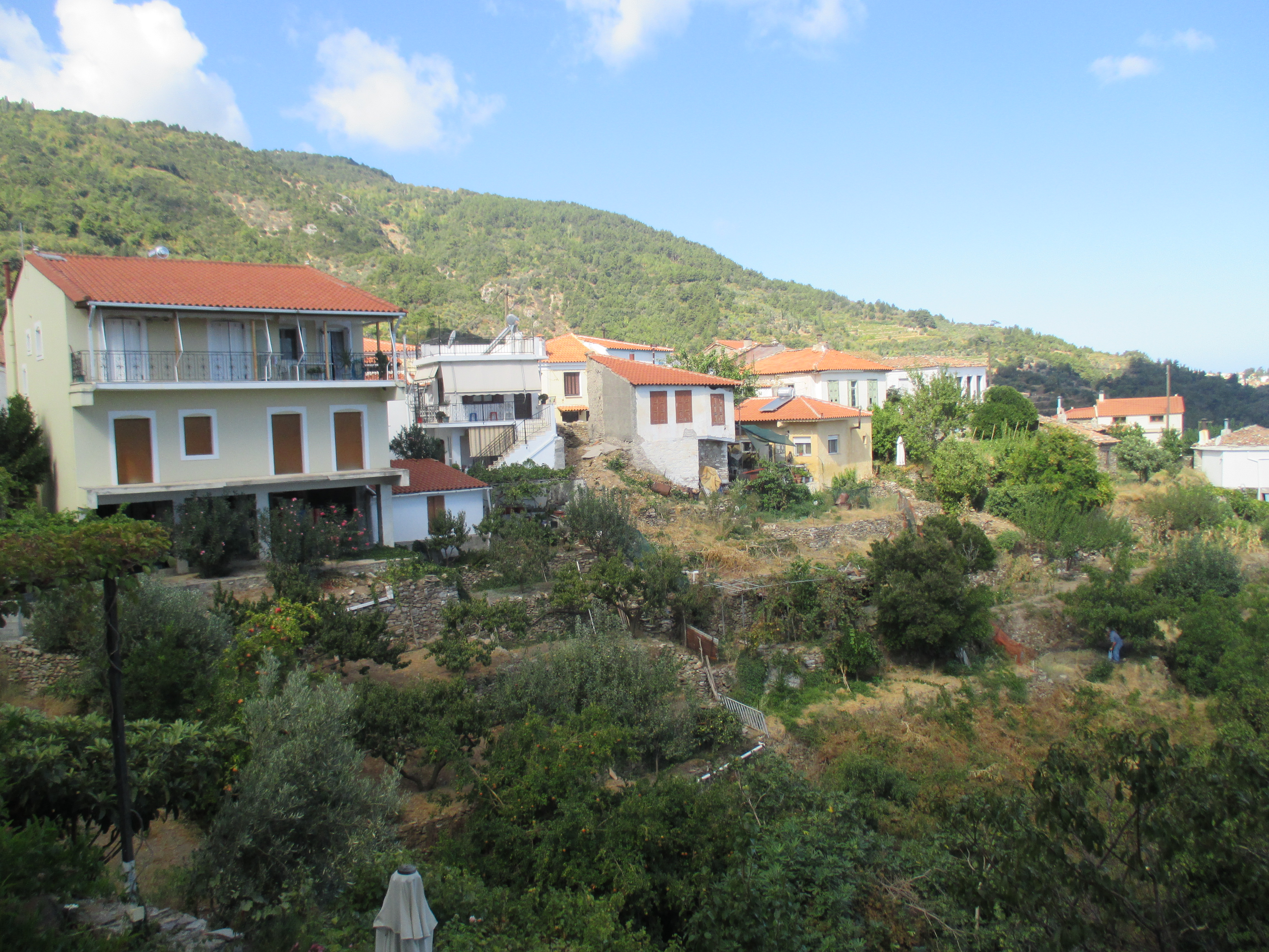 Manolates, Samos, Greece.